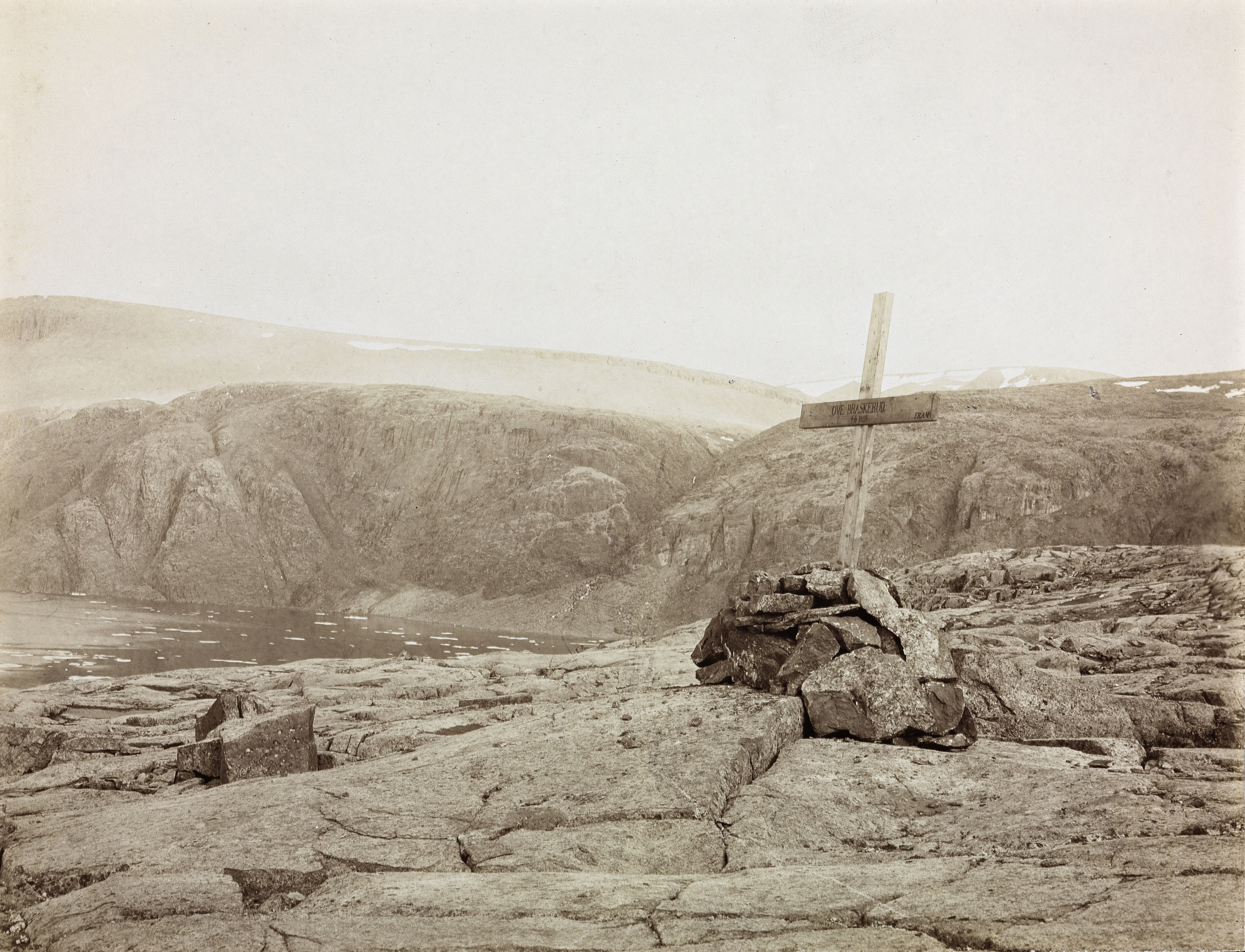 Beskrivelse / Description: Fyrbøteren Ove Braskerud (1872-1899) døde av lungebetennelse høsten 1899 mens "Fram" overvintret i Havnefjord (Harbour Fiord). Han ble senket i havet, og mannskapet satte opp dette minnesmerket for han. The stoker, Ove Braskerud, died of pneumonia while "Fram" spent the Winter in Harbour Fiord. He was buried in the Ocean and the crew built this memorial for him. 2. Fram-ekspedisjon: Nord-vest-Grønland og øyene nord for Øst-Canada : 1898-1902 / 2nd "Fram" expedition : Northwest Greeland and the islands North of East Canada Dato / Date: 8. mai 1900 Sted / Place: Canada, Nunavut, Ellesmere Island, Havnefjord / Harbour Fiord Fotograf / Photographer: ukjent / unknown Digital kopi av original / Digital copy of original: s/h papirpositiv Eier / Owner Institution: Nasjonalbiblioteket / National Library of Norway Lenke / Link: Bildesignatur / Image Number: bldsa_SVpos_0050